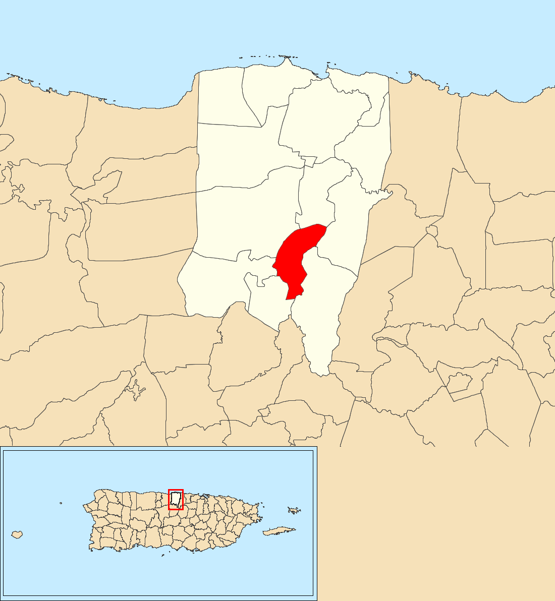 Río Arriba, Vega Baja, Puerto Rico locator map